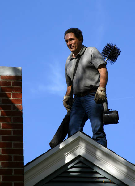 photographer